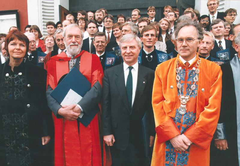 Two new honorary doctors at the Norwegian University of Science and Technology: Raymond Ian Page and Arve Tellefsen. Left to right: vice-dean Rigmor Austgulen, R.I. Page, A. Tellefsen, rector Emil Spjøtvoll